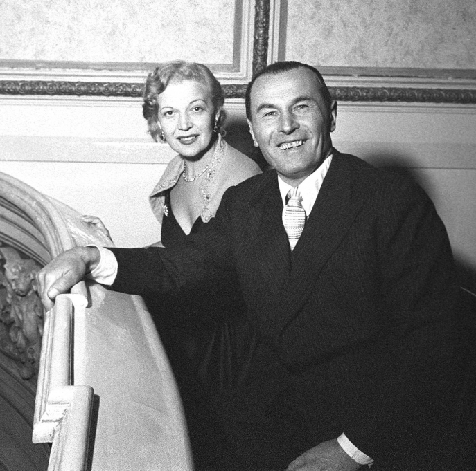 Marta Eggerth (1912–2013) and Jan Kiepura (1902–1966), a singer and movie actor couple.